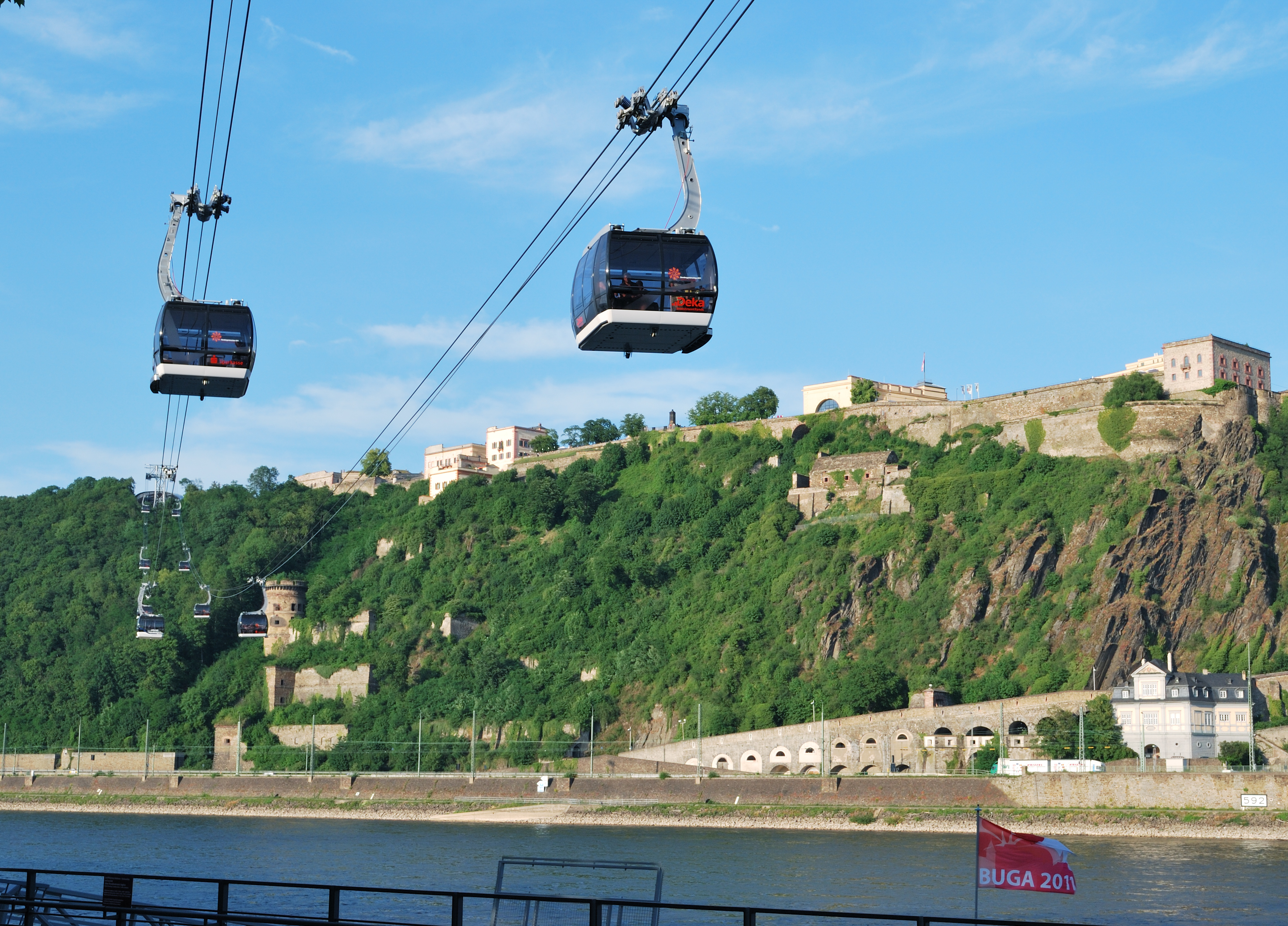 The National Garden Show 2011 in Koblenz - Koblenz Cable Car.